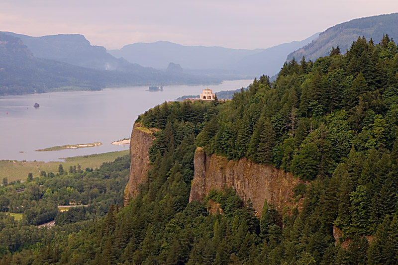 The Crown Point Vista House in the Columbia River Gorge. Beacon Rock is visible in the background, above and to the left of the Vista House; Hamilton Mountain is to the left of Beacon Rock.